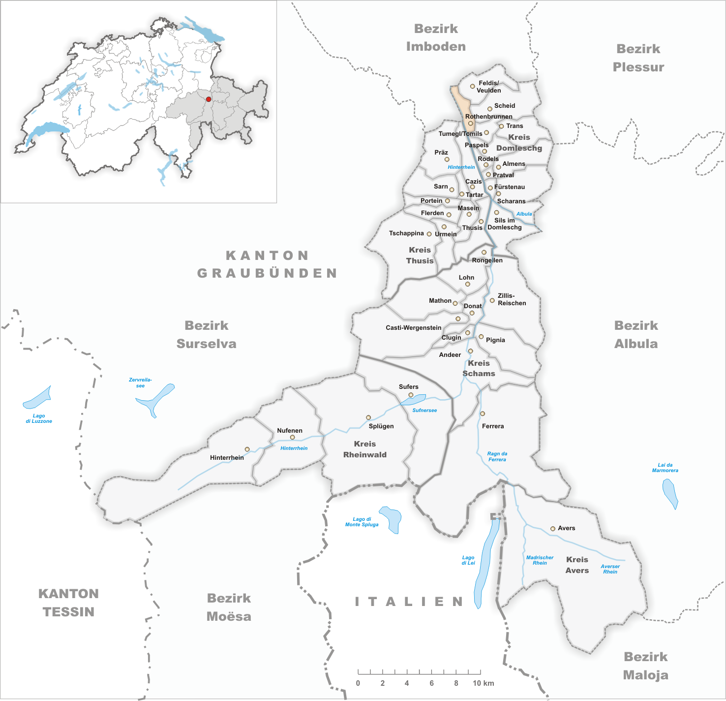 Municipality Rothenbrunnen